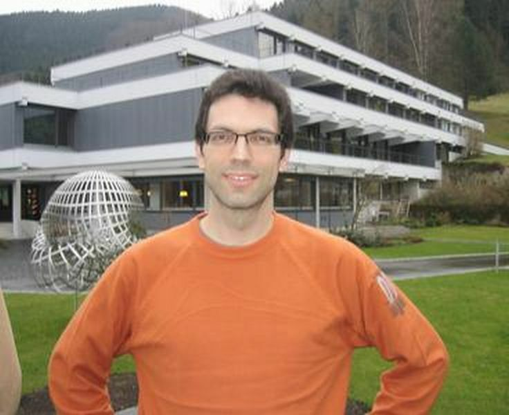 Arnaud Chéritat, Oberwolfach 2008